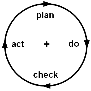 PCDA or Deming Cycle